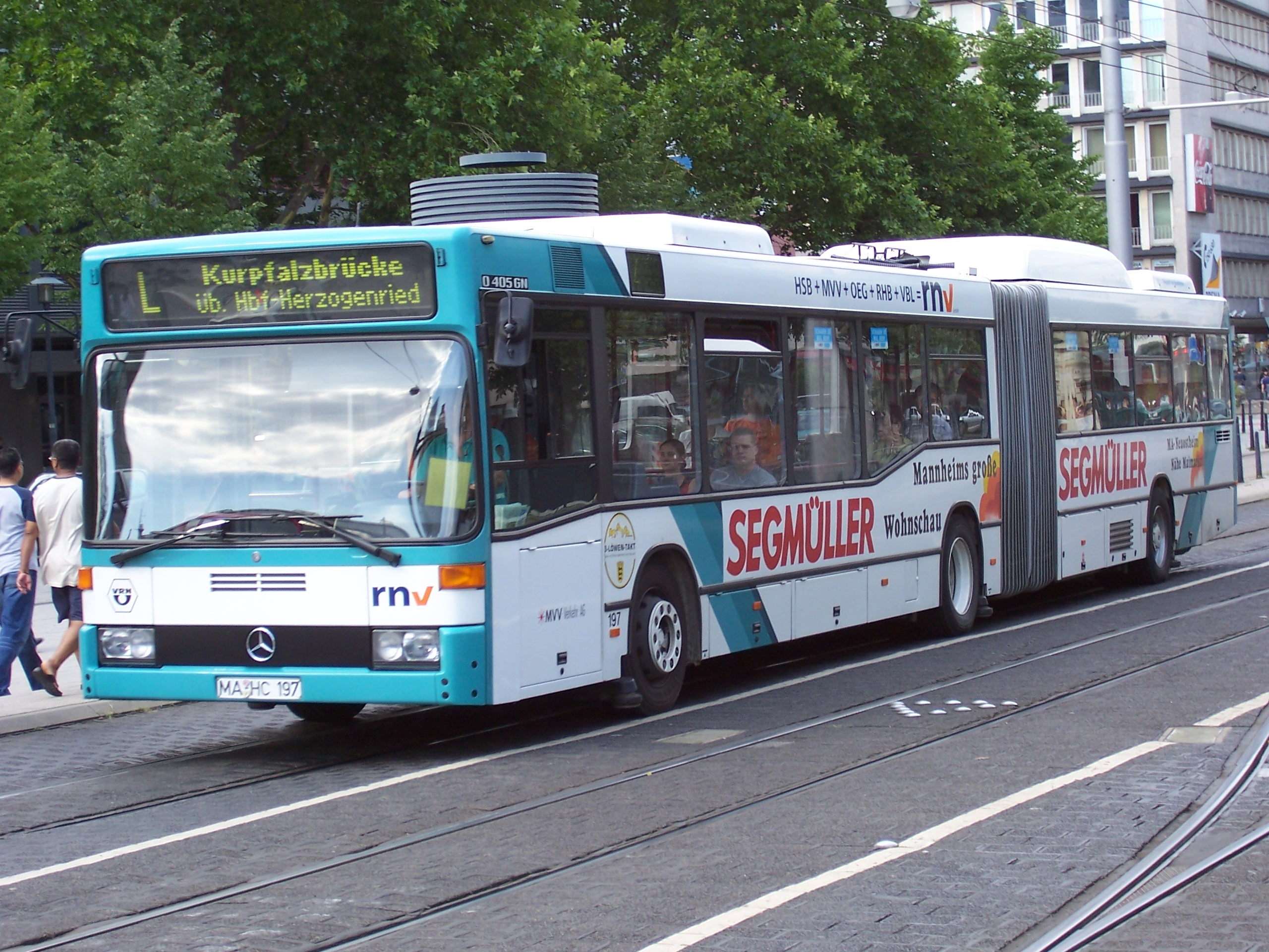 Mercedes-Benz O 405 GN2 CNG bus in Mannheim, Germany My own photo from 21-jul-2005